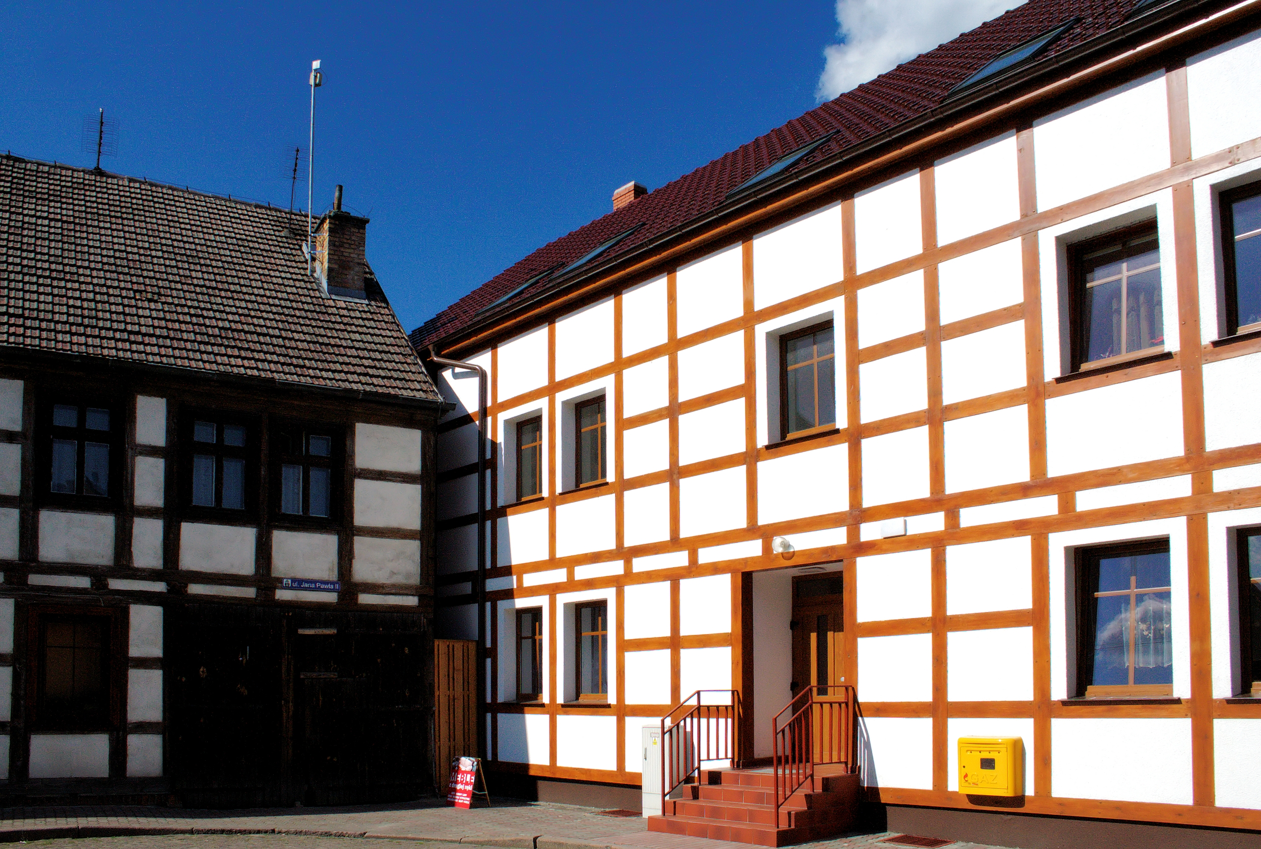 Timber framing houses in Mieszkowice